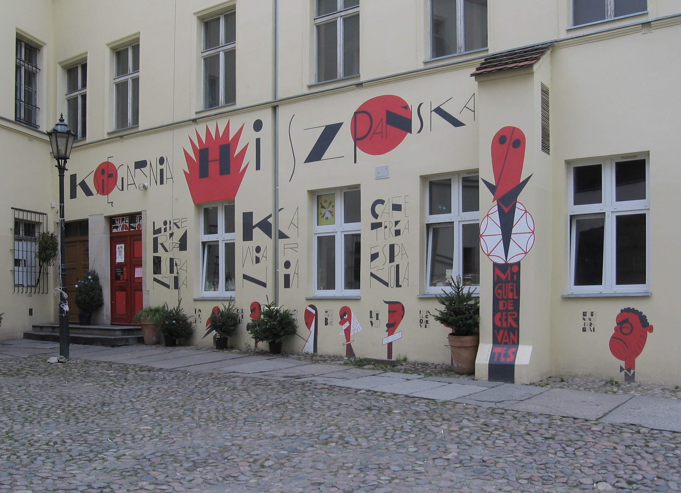 The wall paintings of Spanish writers made by Tomasz Broda (1967– ) for Księgarnia Hiszpańska ELITE (ELITE Spanish Bookstore) Karola Szajnochy 5 street, Wrocław, Poland.